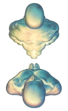 Out of body experience